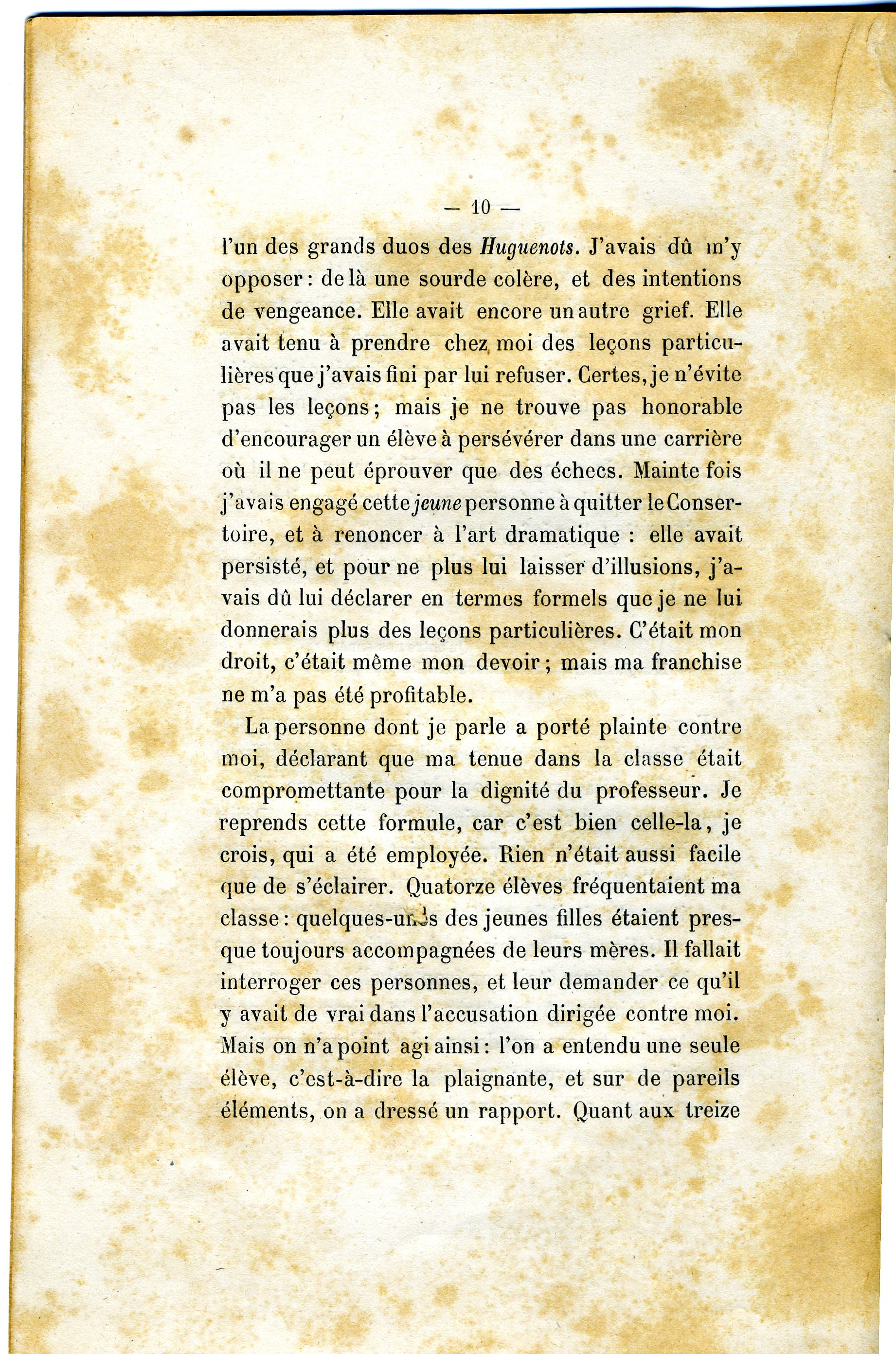 Justification Jean-Vital Jammes